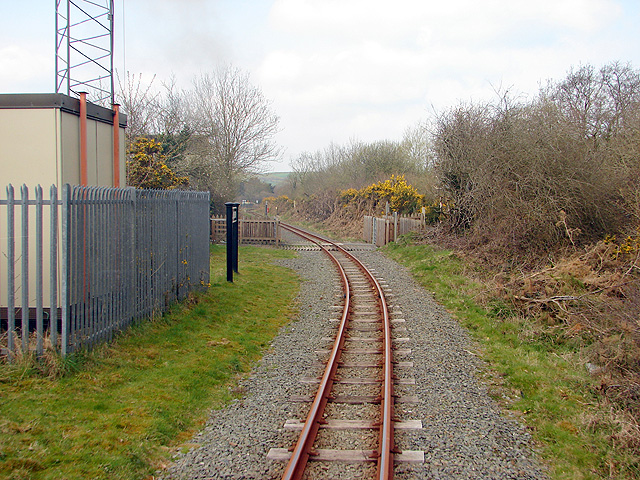 Glanyrafon Station A view from the rear coach of a Vale of Rheidol train as it passes through the Glanyrafon Station area.